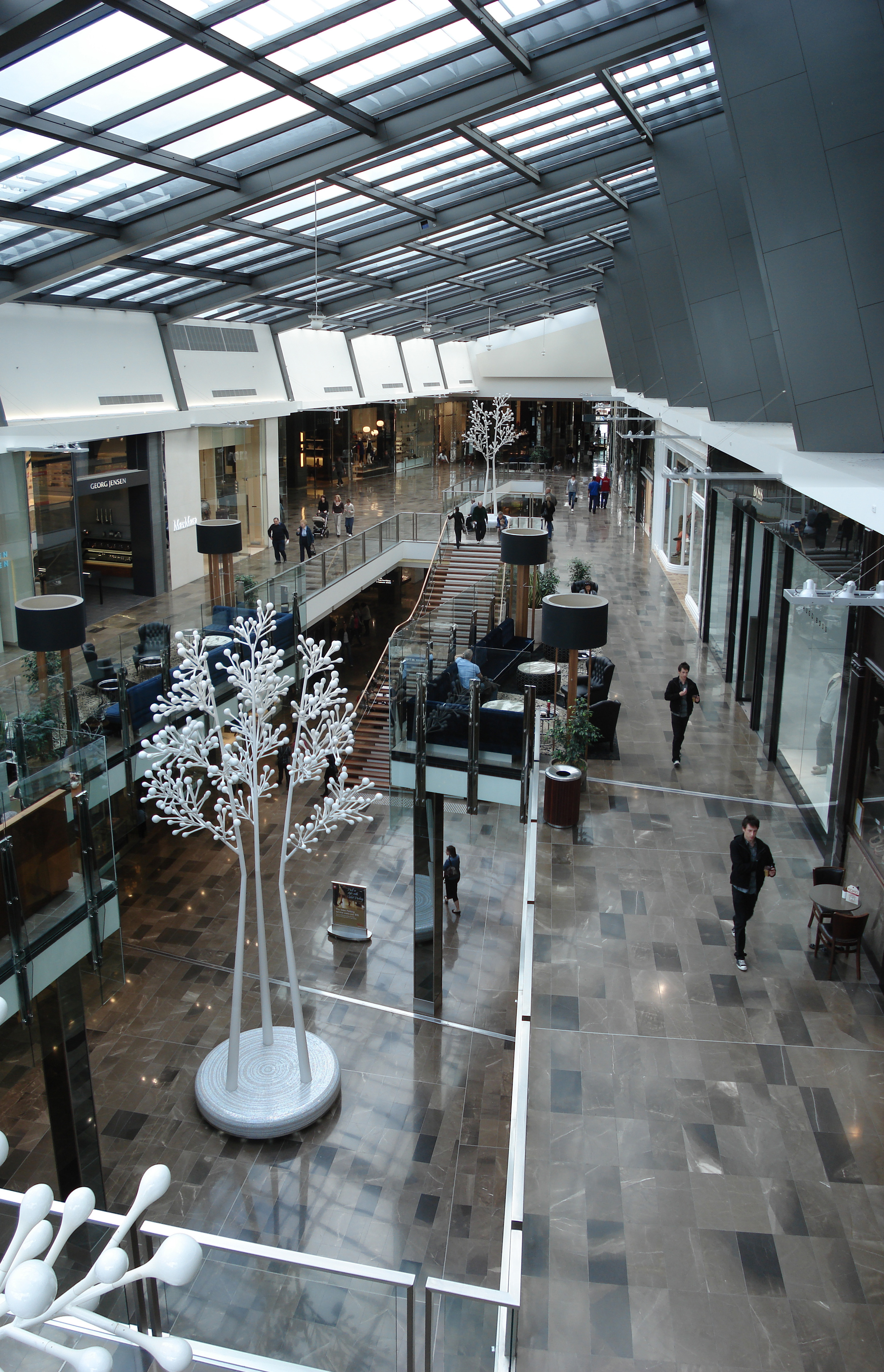 The interior of Westfield Doncaster, looking west from level two above the level 1 entrance to David Jones on August 28, 2009.